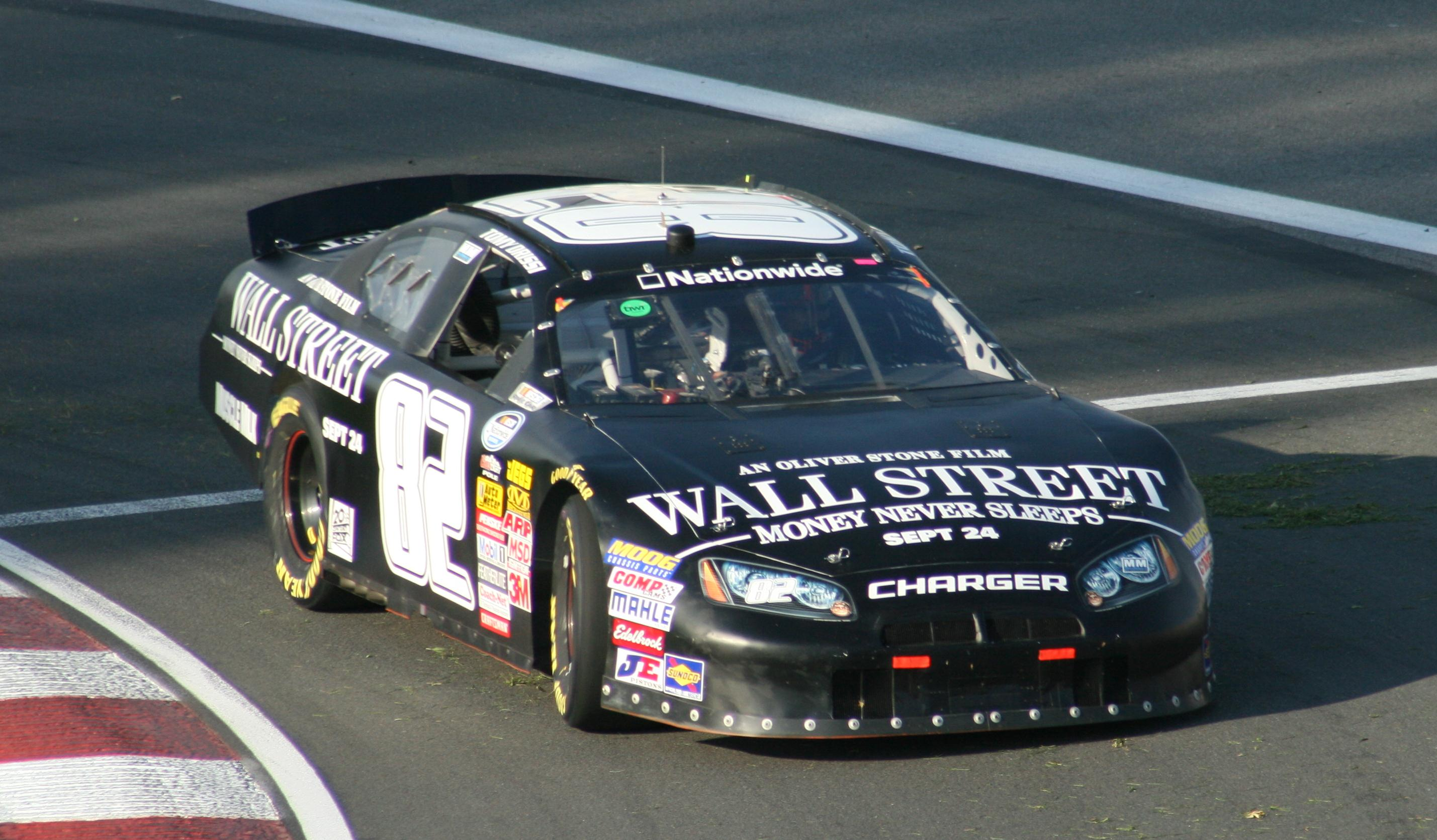 Tomy Drissi in the qualification for the 2010 NAPA Auto Parts 200 at the Circuit Gilles Villeneuve in Montreal.